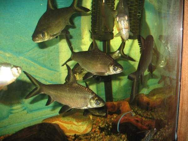 Bala sharks in a tank. Photographed with a HP PhotoSmart C200.